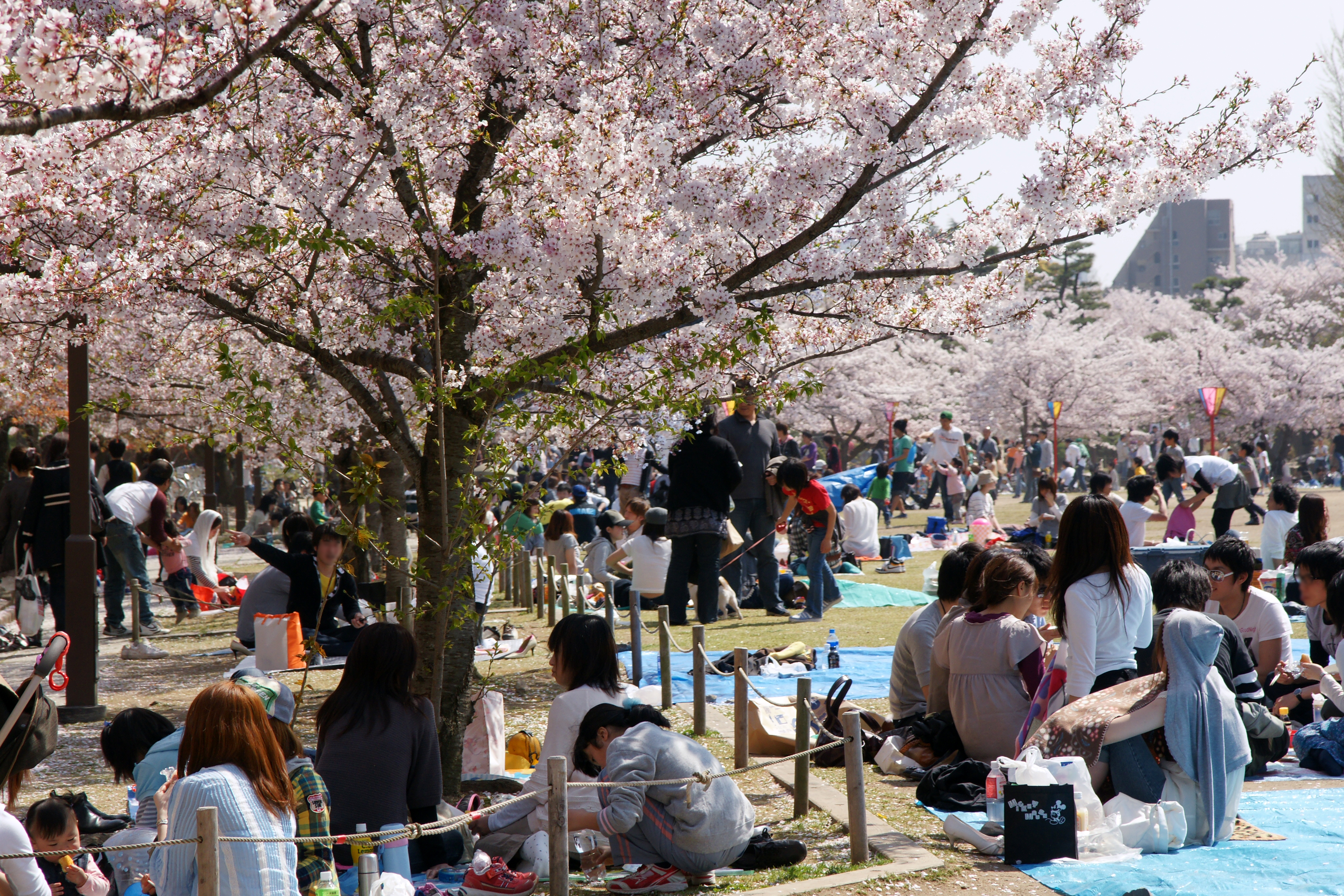 Himeji Castle in Tsu, Hyogo prefecture, Japan.